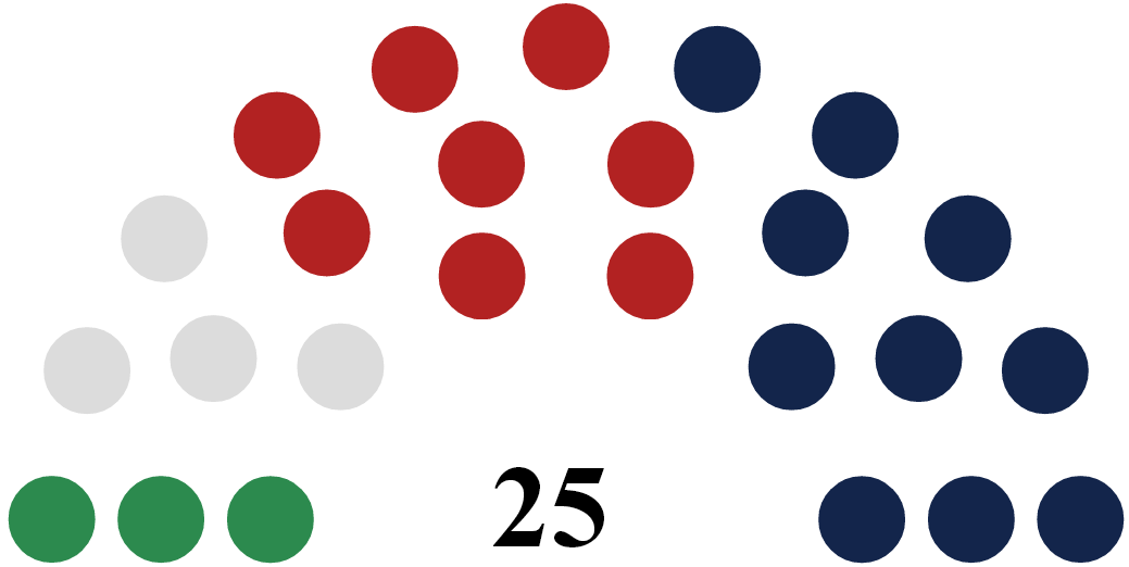 Current elected landtag. Created with User:Slashme 's great parliament tool